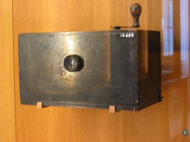 Movie camera called Cinematographe build by Leon Bouly in 1892, Musée des Arts et Métiers, Paris, inventory n°16684-0000